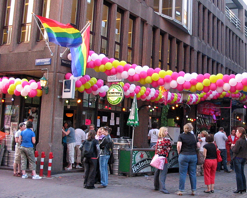 The lesbian bar Vivelavie in Amsterdam, just before a street party celebrating Gay Pride on August 1, 2008